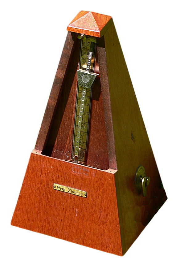 spring driven pendulum metronome